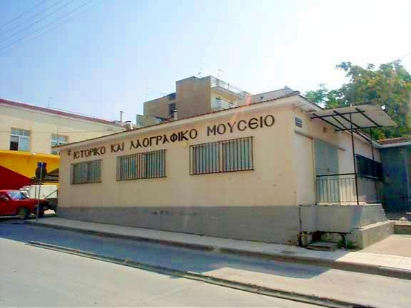 Outside View, image from the Folklore Museum, Yannitsa, Central Macedonia, Greece